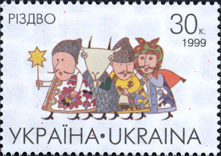 Stamp of Ukraine